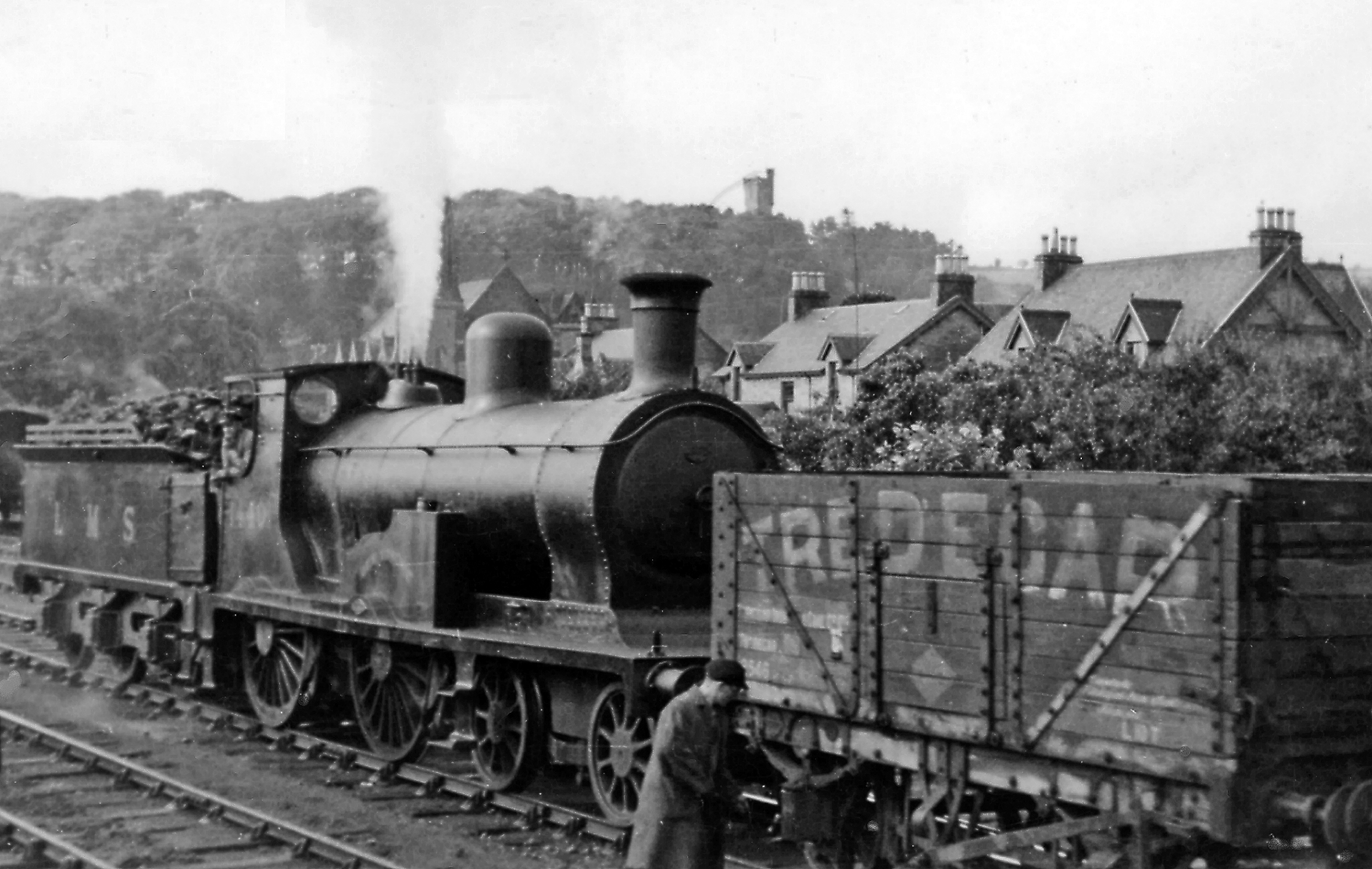 Ex-Highland Railway 'Ben' class 4-4-0 at Dingwall. View westward in the goods yard south of the Station: ex-Highland Far North Line, Inverness - Dingwall - Wick/Thurso, junction of the Kyle of Lochalsh line. No. 14401 'Ben Vrackie' had only a month or two to live, being a survivor of the Drummond 'Ben' class 2P 4-4-0 dating from 1898 and withdrawn in 11/48. (The scene features also one of the countless (usually primitive) 'Private Owner' cola wagons which abounded in those days.